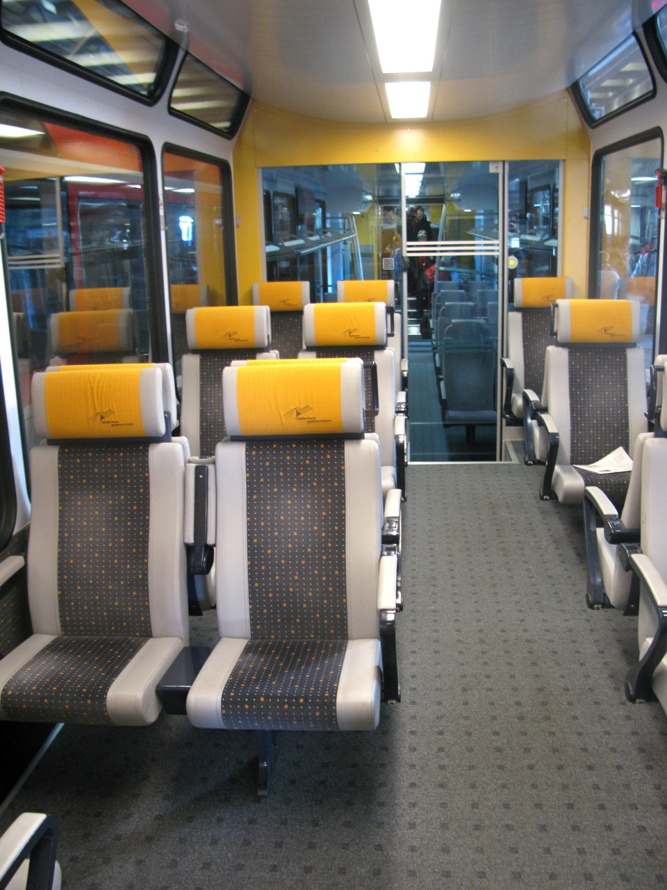 Matterhorn Gotthard Bahn, running from Visp to Zermatt